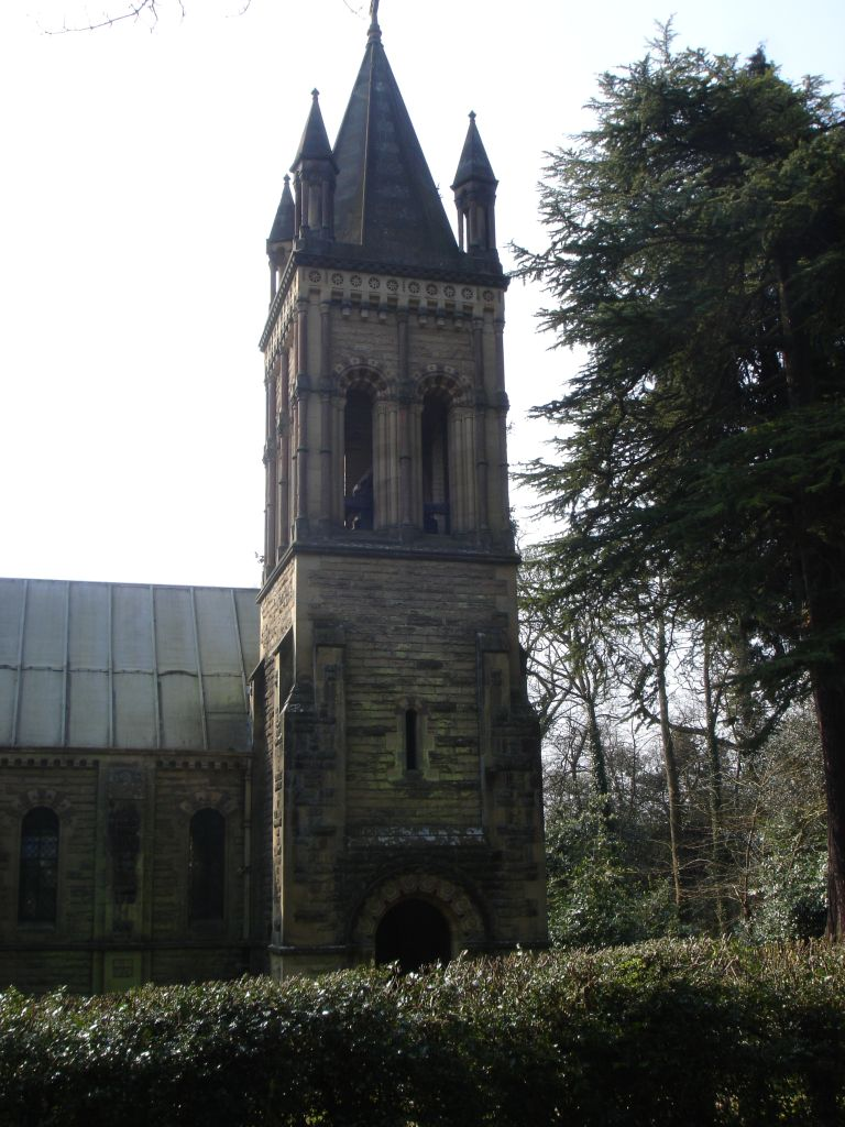 Bersham Church in Bersham, near Wrexham.